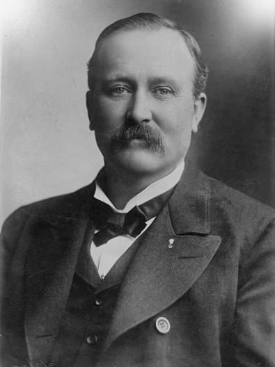 Joseph Warren Fordney (1853 – 1932), a politician from the U.S. state of Michigan